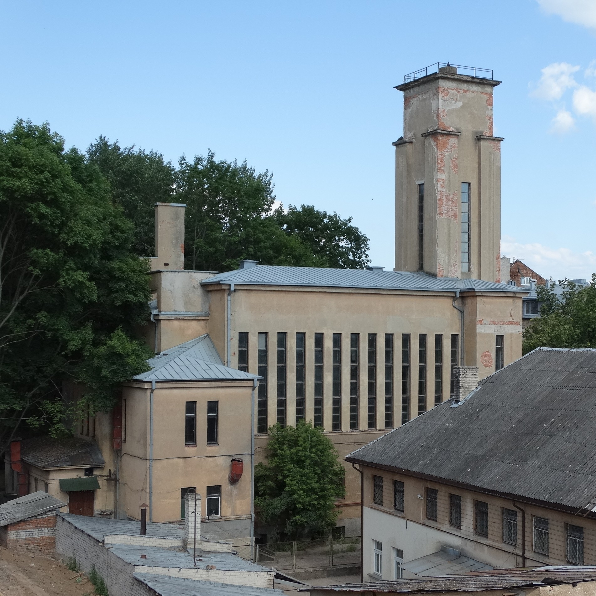 Evangelical Reformed Church in Kaunas, Lithuania